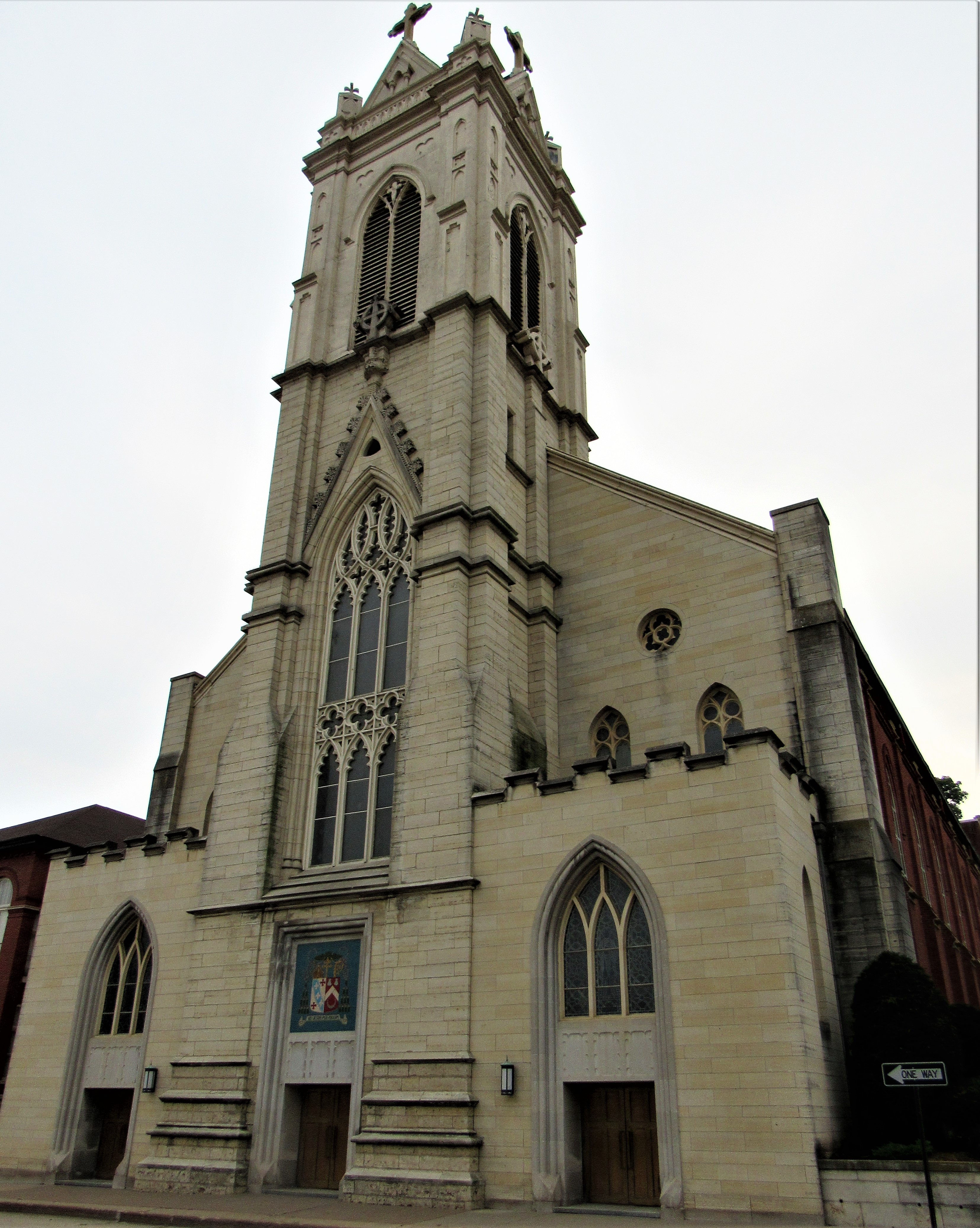 St. Raphael's Cathedral in Dubuque, Iowa.